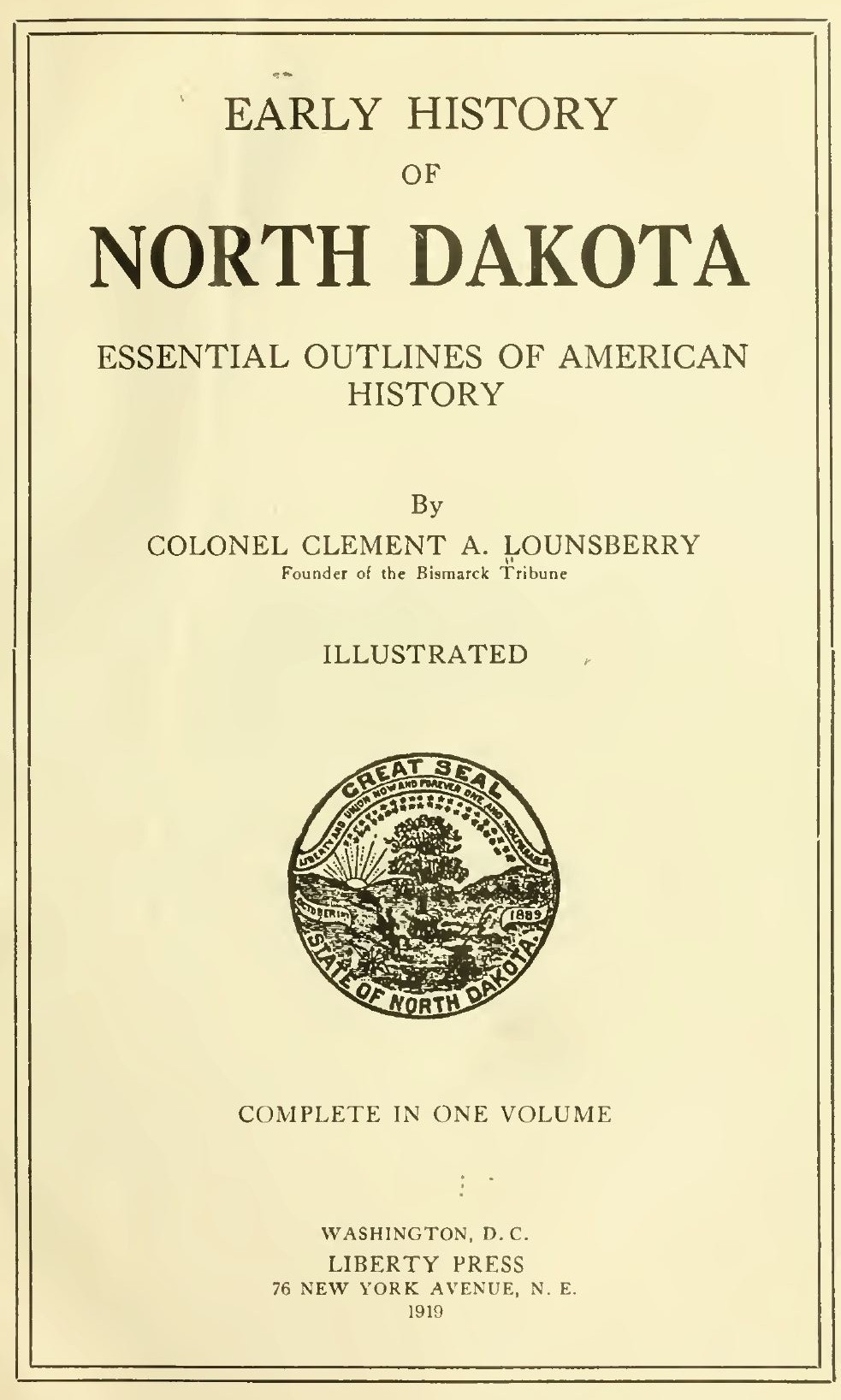 Title page from Early History of North Dakota, Clement Lounsberry, 1919